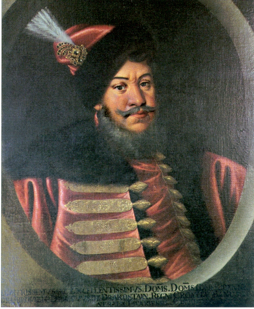 Ivan II. Drašković /John II Drashkovich/ (~1550-1613), Croatian nobleman and military leader, Ban (Viceroy) of Croatia 1595-1607.